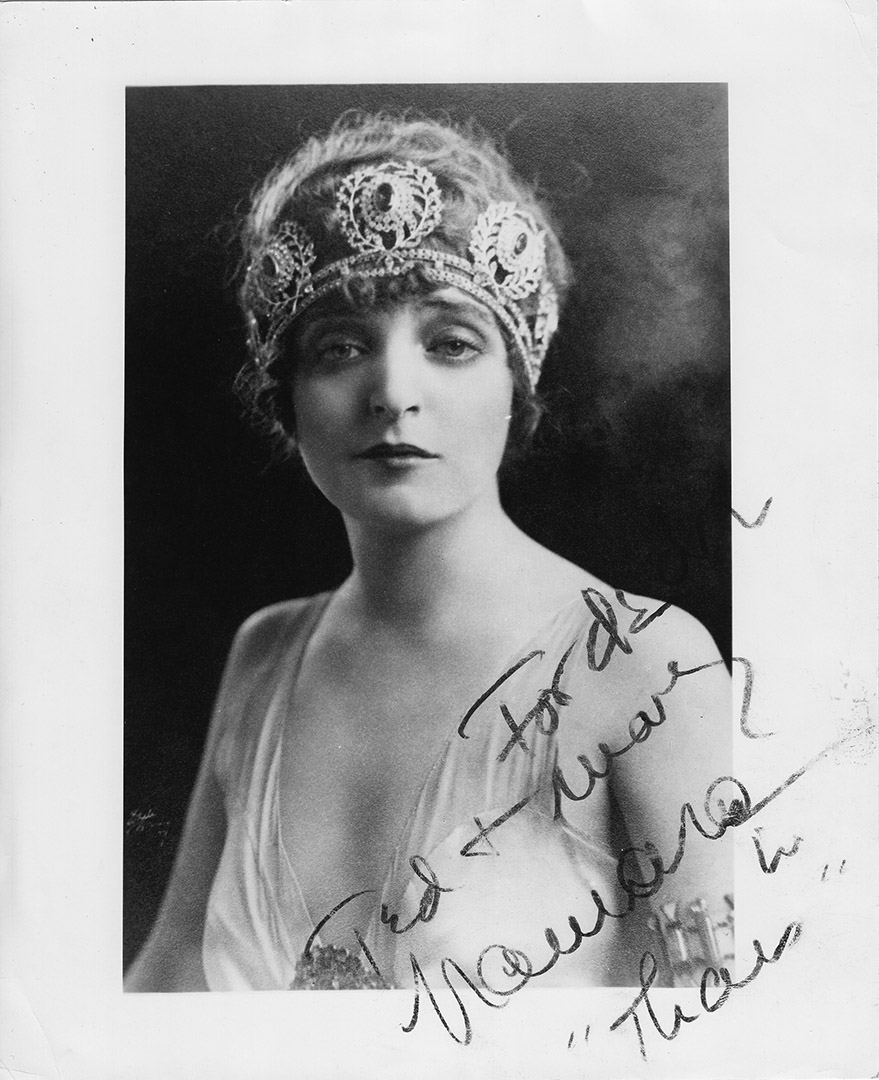 Good friend of DeGrazia's, Italian actress Namara Traviata, was a big fan of DeGrazia's work.